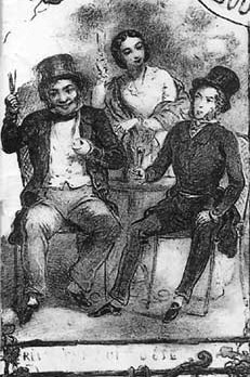 Scene from Le Rêve d'une nuit d'été, detail from: Jacques Offenbach: Le Violoneux. Cover page of vocal score, published 1855